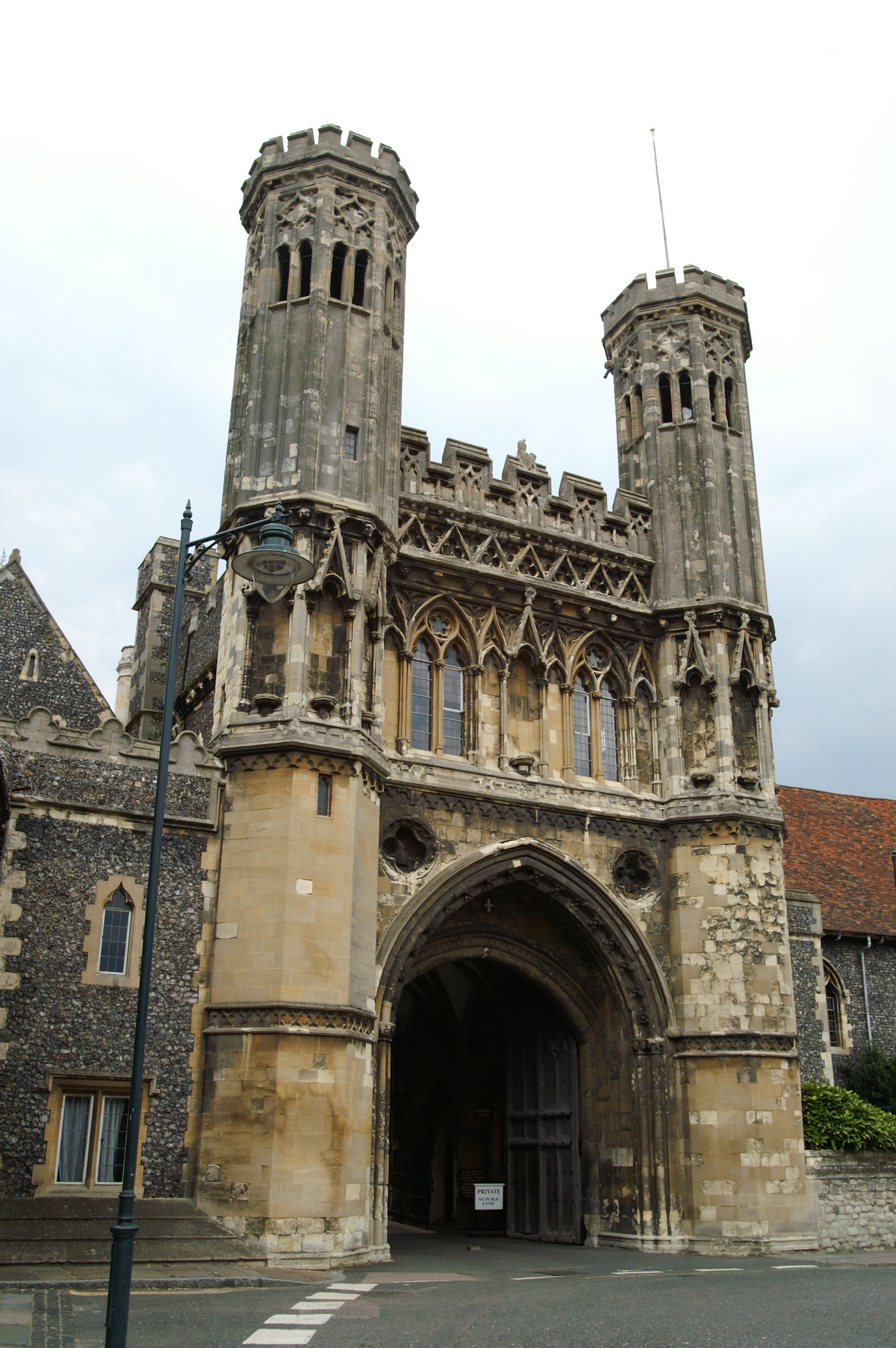 (2007/08/02 Canterbury, Kent, England, UNITED KINGDOM) /* UNESCO World Heritage */ Canterbury Cathedral, St. Augustine's Abbey, and St. Martin's Church (1988) 世界遺産「カンタベリー大聖堂、聖オーガスティン大修道院と聖マーティン教会」